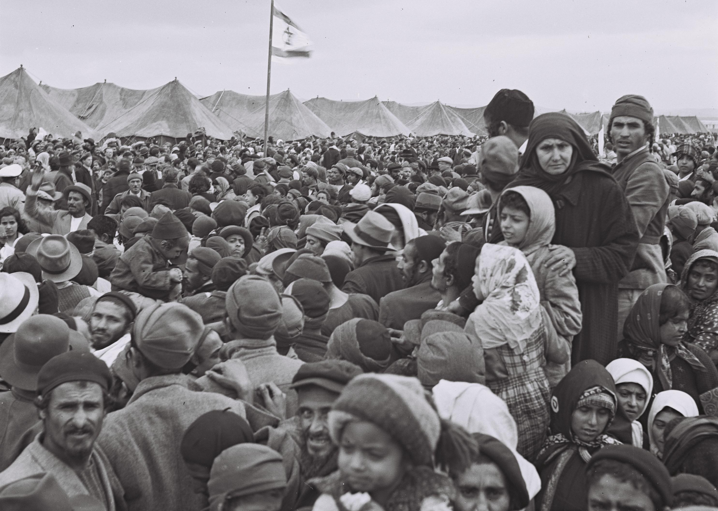 Immigrants from Yemen celebrating their first "Tu Bishvat" in Israel, at the "Rosh Ha'Ayin" immigrants camp.